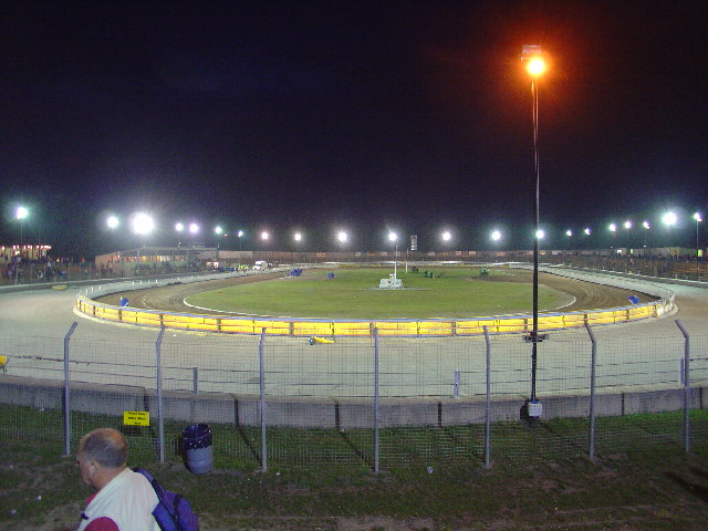 Foxhall Stadium. The inside track (shale) is for Speedway (Ipswich Witches) and the outside concrete track is for Stock Car